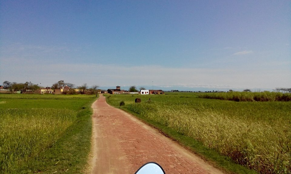 Hansowala